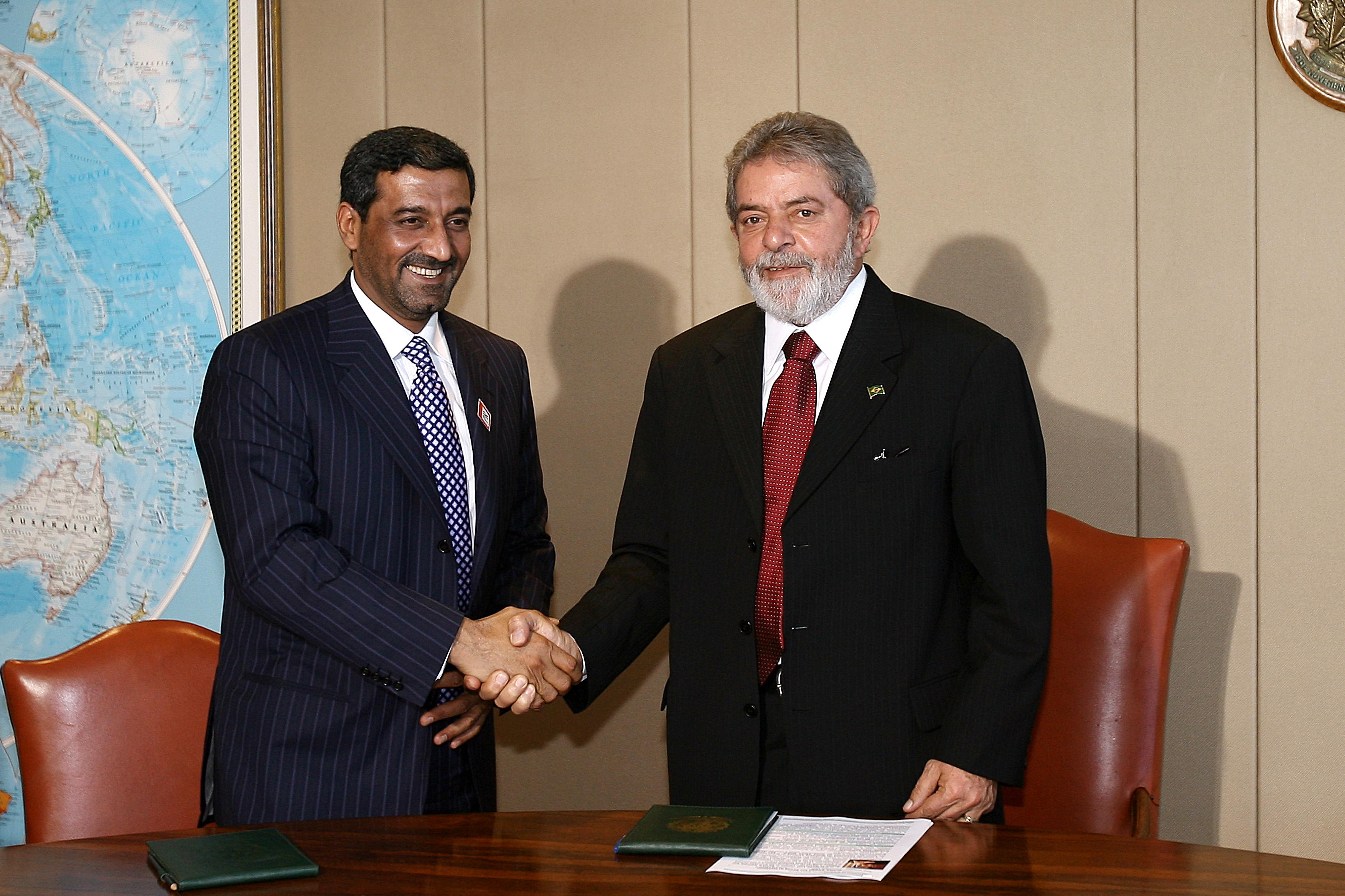 Brazilian president Lula during meeting with Sheikh Ahmed bin Saeed Al Maktoum of Emirates Airlines Photo: Ricardo Stuckert / PR